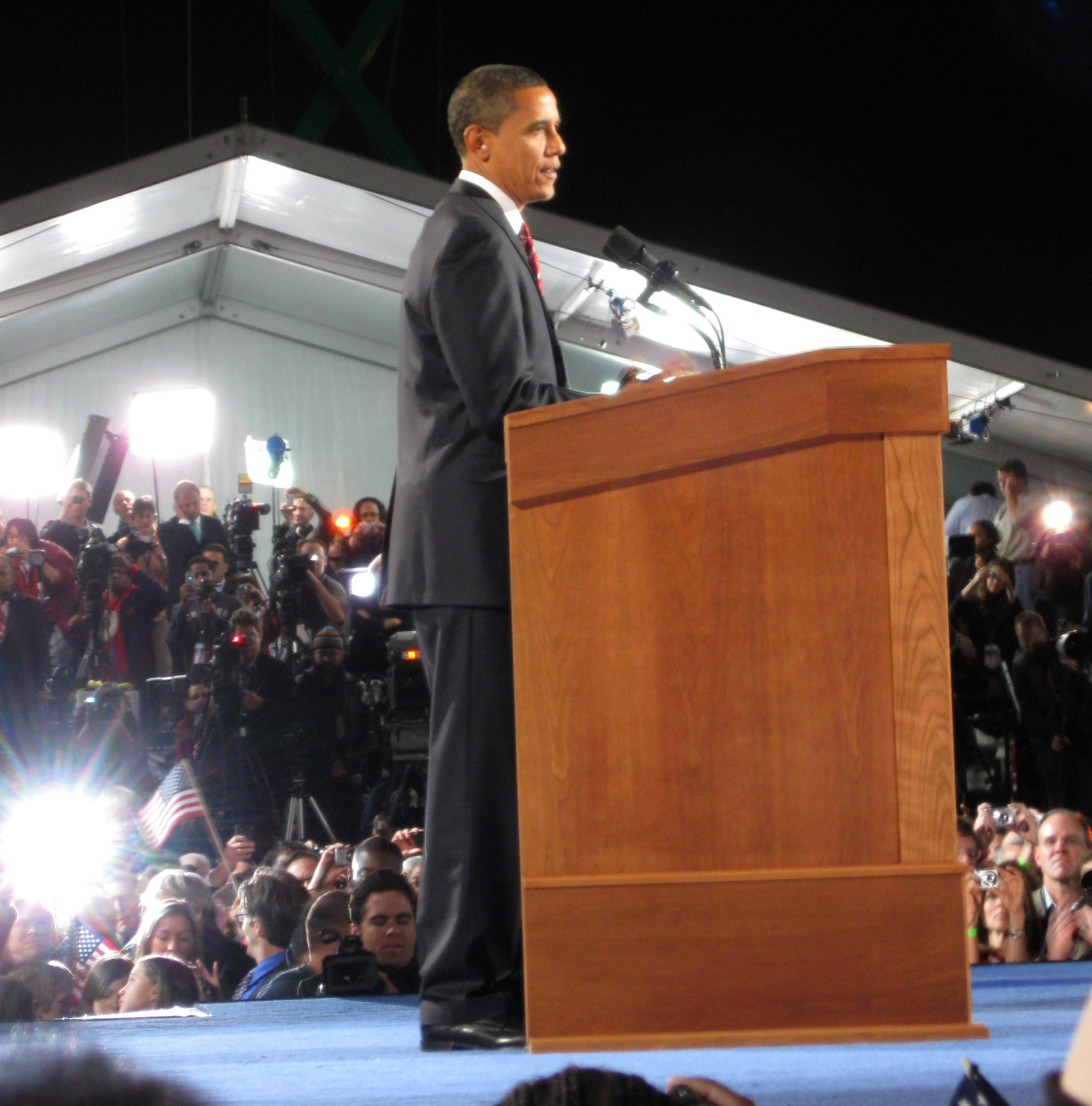 Barack Obama delivering his electoral victory speech on Election Night ´08, in Grant Park, Chicago.